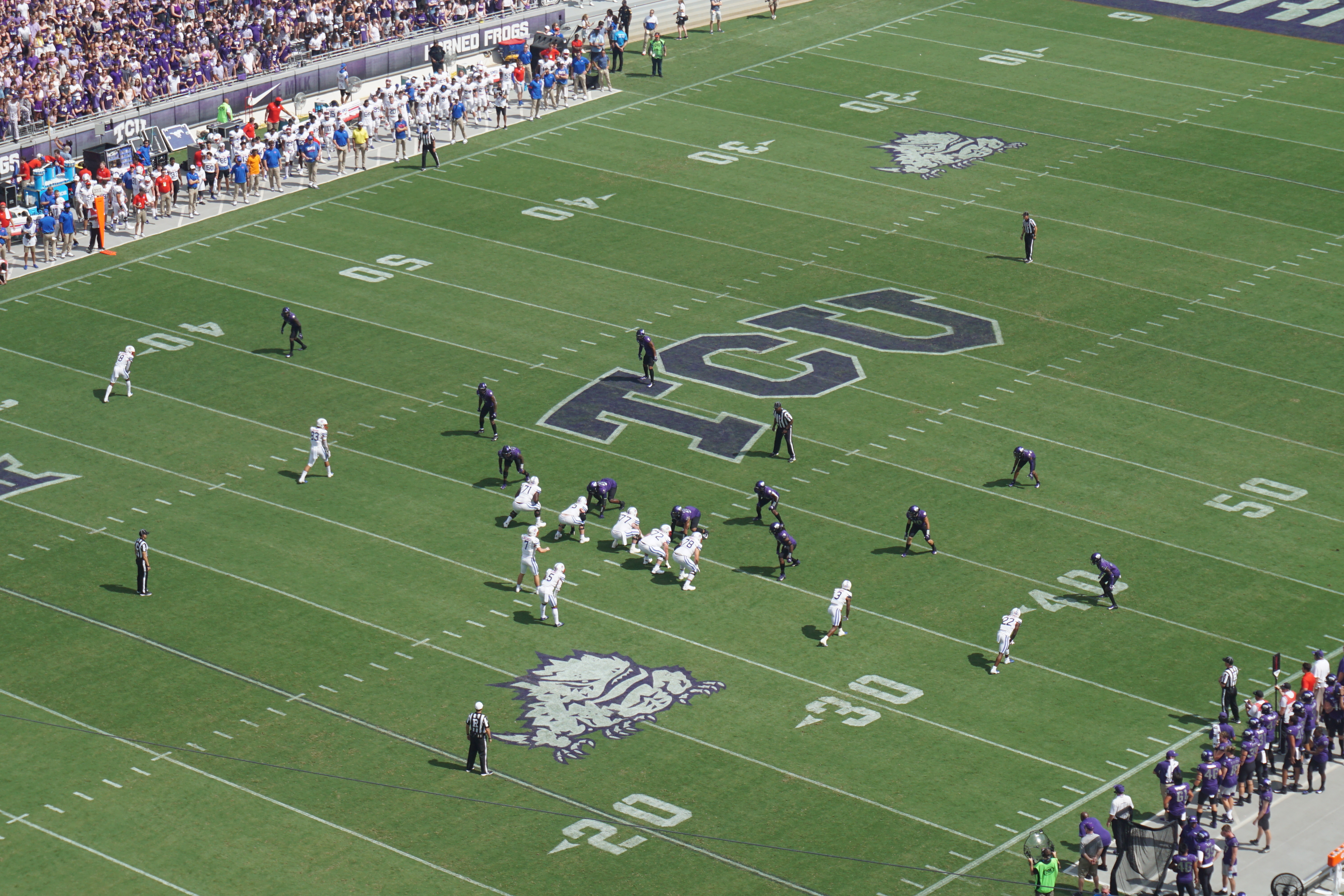 Southern Methodist on offense during the Southern Methodist Mustangs vs. Texas Christian Horned Frogs football game at Amon G. Carter Stadium in Fort Worth, Texas (United States). Southern Methodist won 41–38.